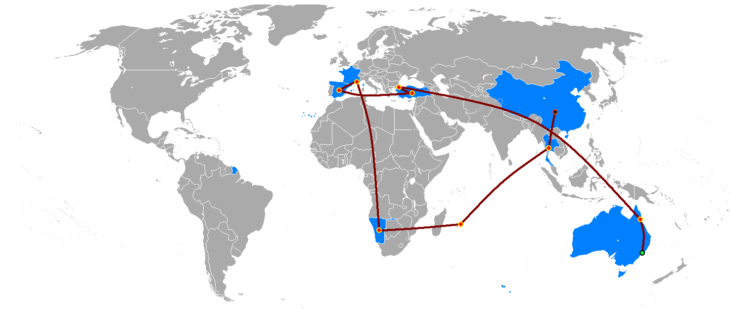 The route map of The Amazing Race China 2015.